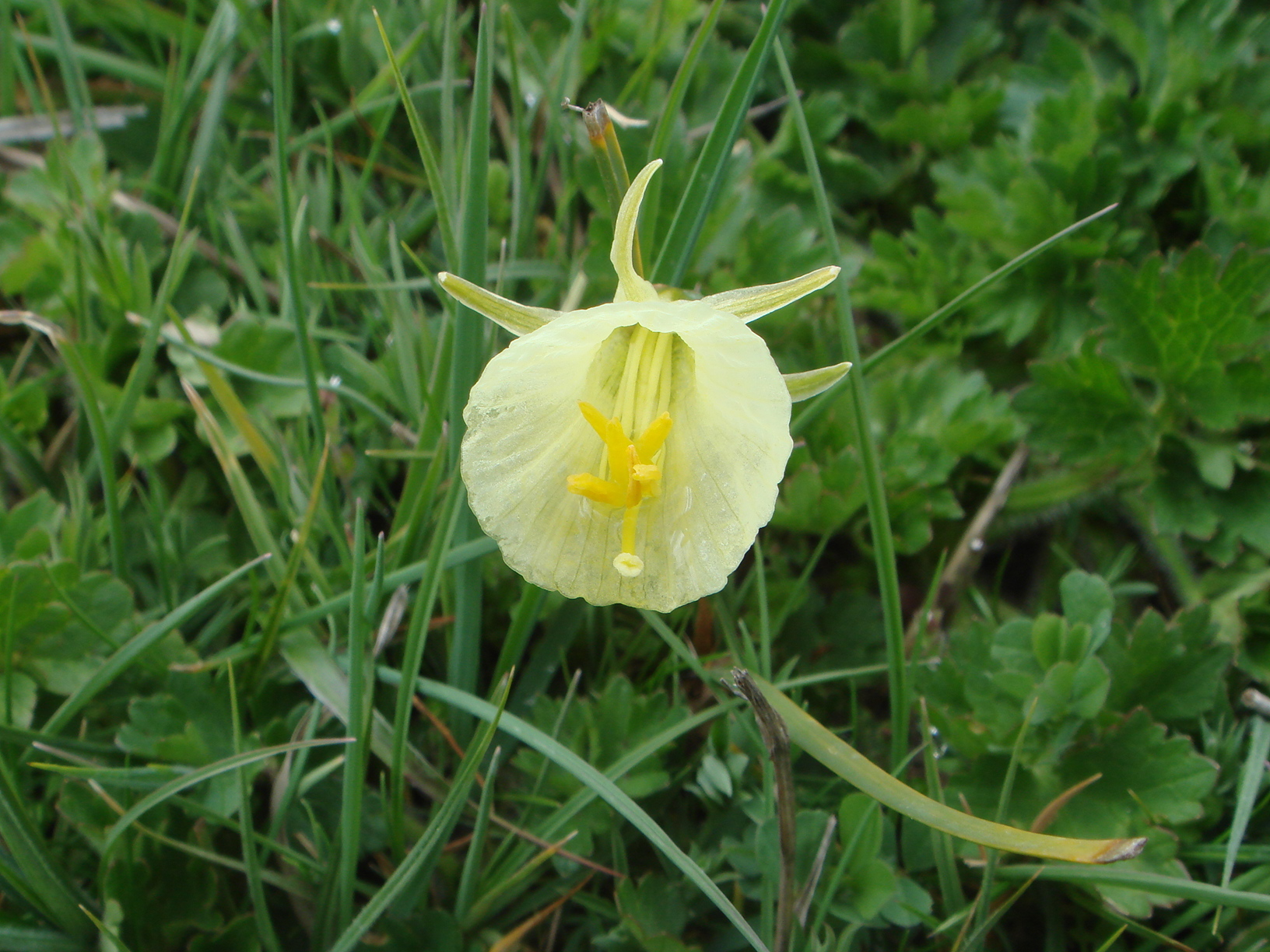 Narcissus bulbocodium subsp. graellsii. La Torre (Ávila) Spain.